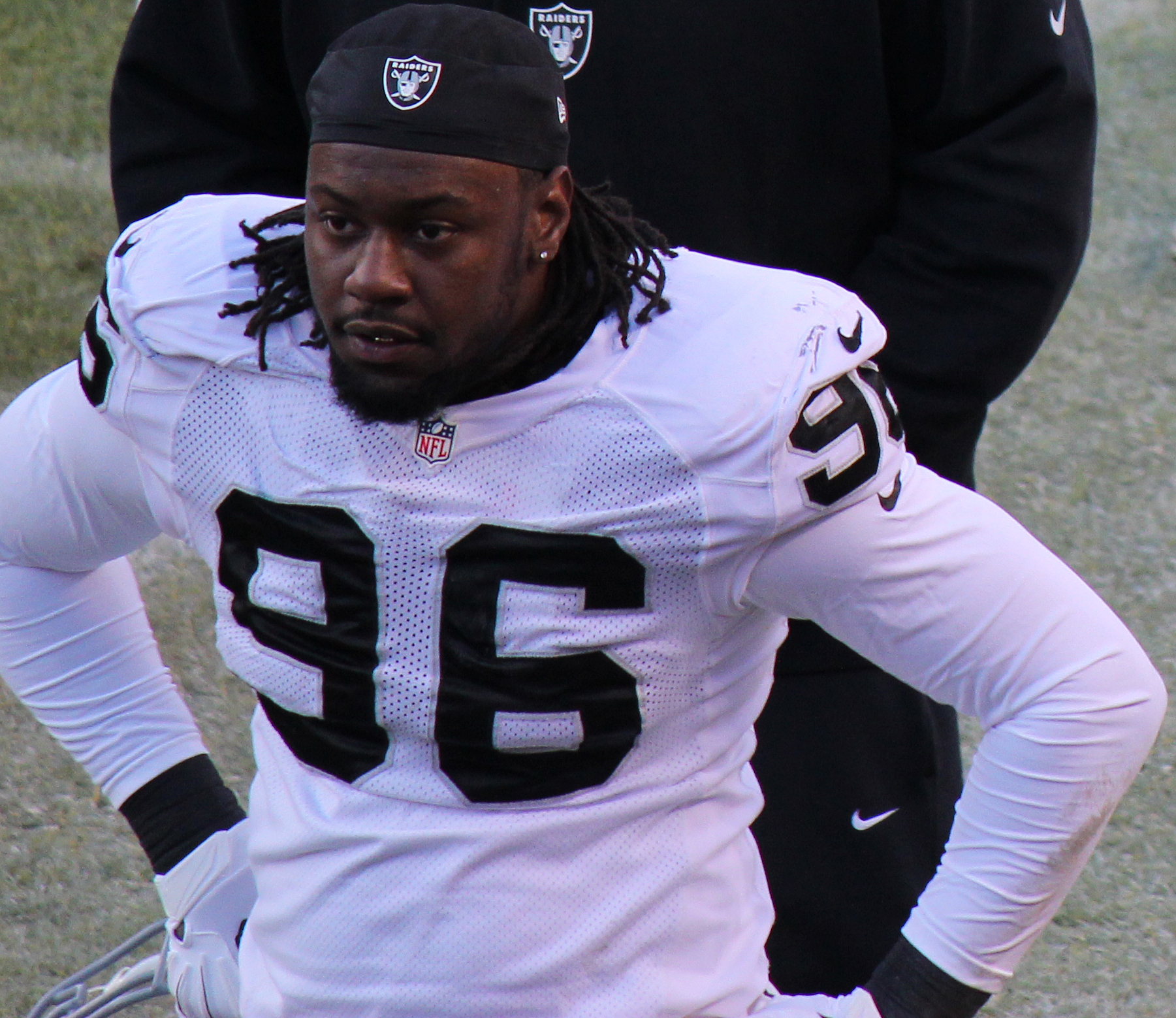 Denico Autry, a player on the National Football League.